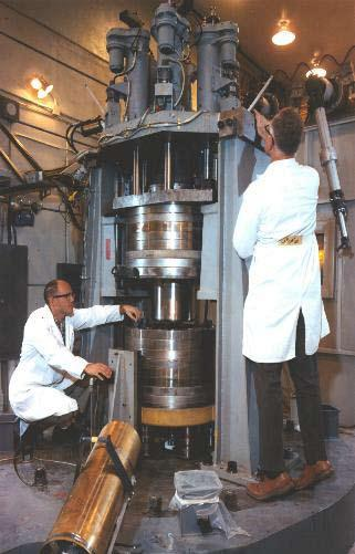 Nevada Test Site - Area 27. Super Kukla reactor being prepared for next test.